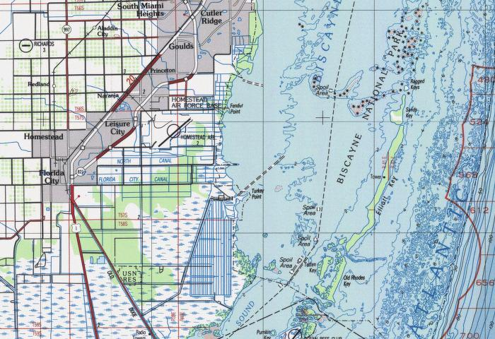 Downloaded from Historical Map & Chart Project Image Catalog MIAMI FL TOPOGRAPHIC BATHYMETRIC MAP 25080_A1_TB_250 1988 (portion)